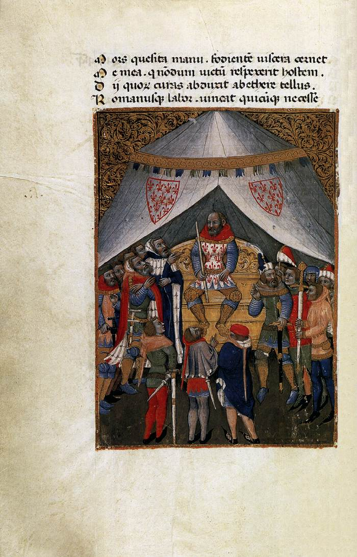 Lucanus: De bello civili (Pharsalia) Lucan (born A.D. 39 in Cordoba, Spain), brother of the famous Stoic philosopher Seneca, was well-known as a writer and moved in the circles close to the Emperor Nero. In A.D. 62 or 63 he published the first three books of his epic poem composed in hexameters, De bello civili (Greek: Pharsalia), in which he describes the civil war between Caesar and Pompey. Lucan's work was much read in the Middle Ages and in the wake of the Italian humanism of the Trecento. The present version of De bello civili was completed in 1373 in Bologna. Its illustrations by Niccolò da Bologna show the typical characteristics of the Bolognese school of manuscript illumination, which produced attractive paintings with spontaneous touches, and a naturalism that repeatedly pushes purely decorative elements into the background. The miniature on folio 86v shows Caesar, the victor over Pompey at the Battle of Pharsalos. The artist shows the scene from a bird's eye perspective and succeeds in creating a consistent representation of space.